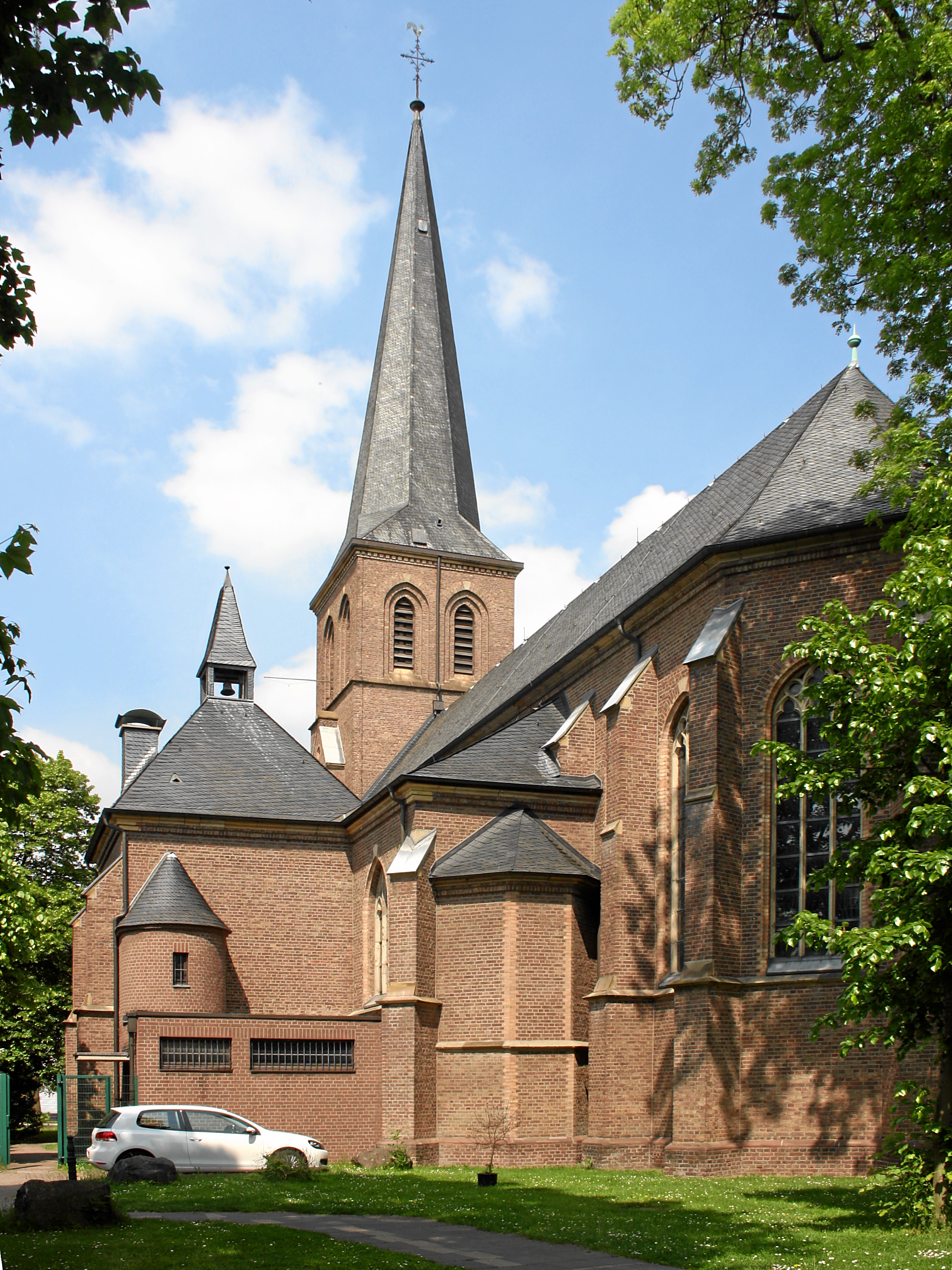 Niederkassel, Germany. Roman-catholic church Saint Jacob, exterior view from South-East.